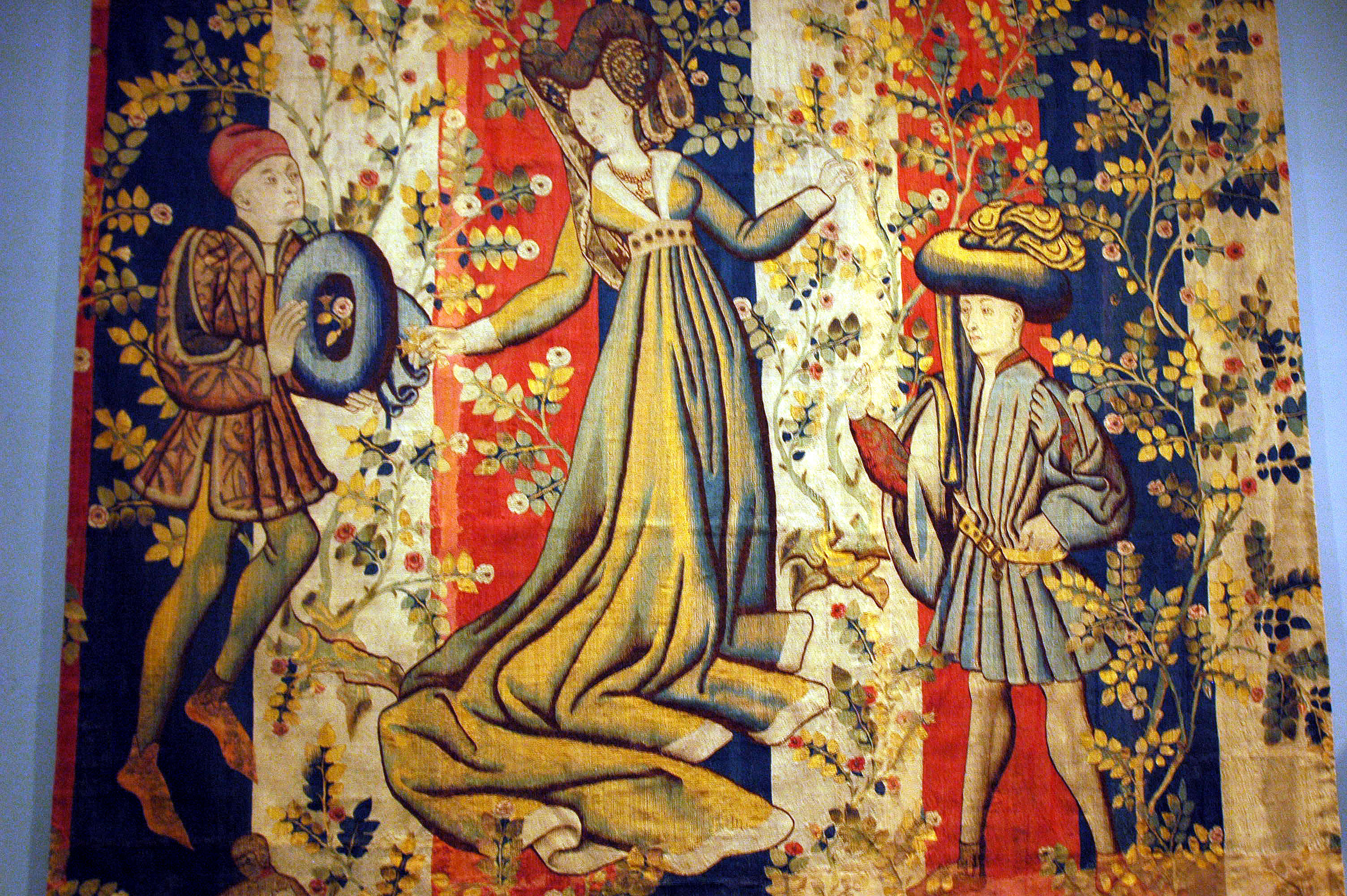 Figures in a Rose Garden, 1450–1455 South Netherlandish Wool warp; wool, silk, metallic weft yarns; 9 ft. 5 3/4 in. x 10 ft. 8 in. (288.9 x 325.1 cm) The Metropolitan Museum of Art, New York, Rogers Fund, 1909 (09.137.2) View at the Metropolitan Museum of Art website Wikipedia Loves Art at the Metropolitan Museum of Art This photo of item # 09.137.2 at the Metropolitan Museum of Art was contributed under the team name "Futons_of_Rock" as part of the Wikipedia Loves Art project in February 2009. Metropolitan Museum of Art The original photograph on Flickr was taken by AlkaliSoaps—please add a comment to the original Flickr page whenever a use has been made on Wikipedia or another project. Project galleries on Flickr: this institution, this team